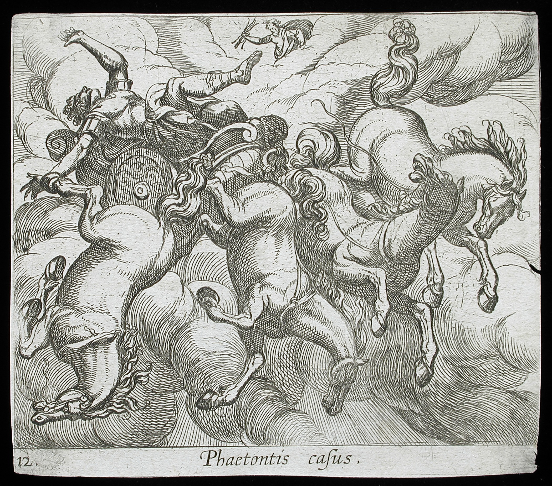 Italy, published 1606 Alternate Title: Phaetonis casus Series: The Metamorphoses of Ovid, pl. 12 Edition: Second edition Prints; etchings Etching Los Angeles County Fund (65.37.96) Prints and Drawings